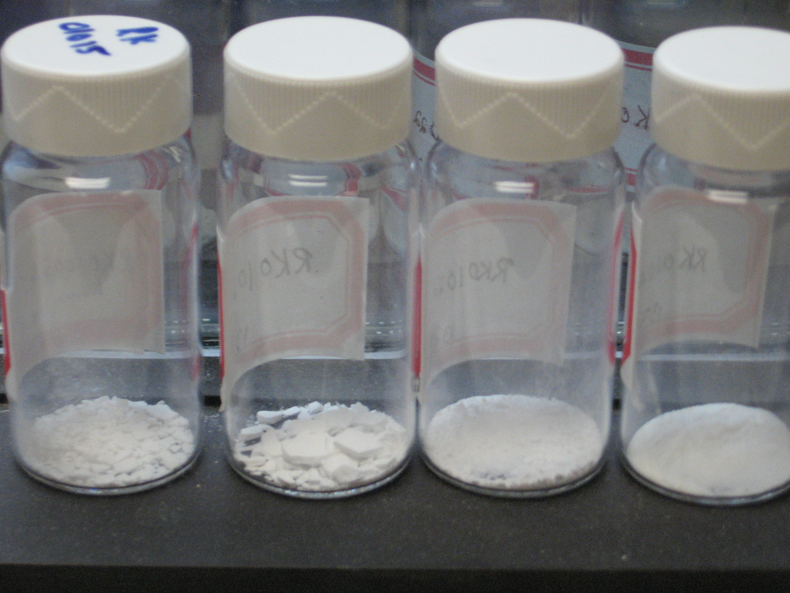 four vials of mesoporous silica